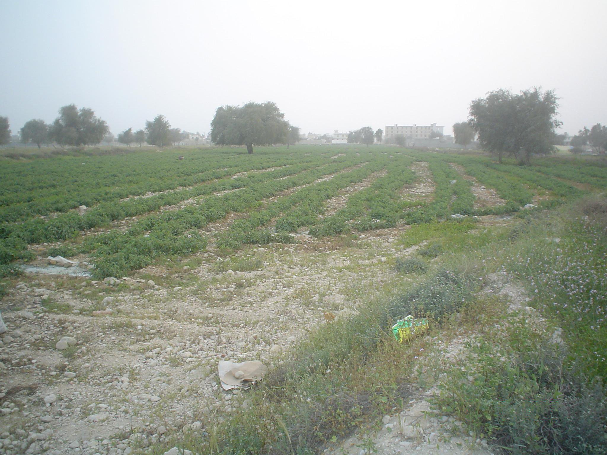 Nakhl (?), a field somewhere in Iran